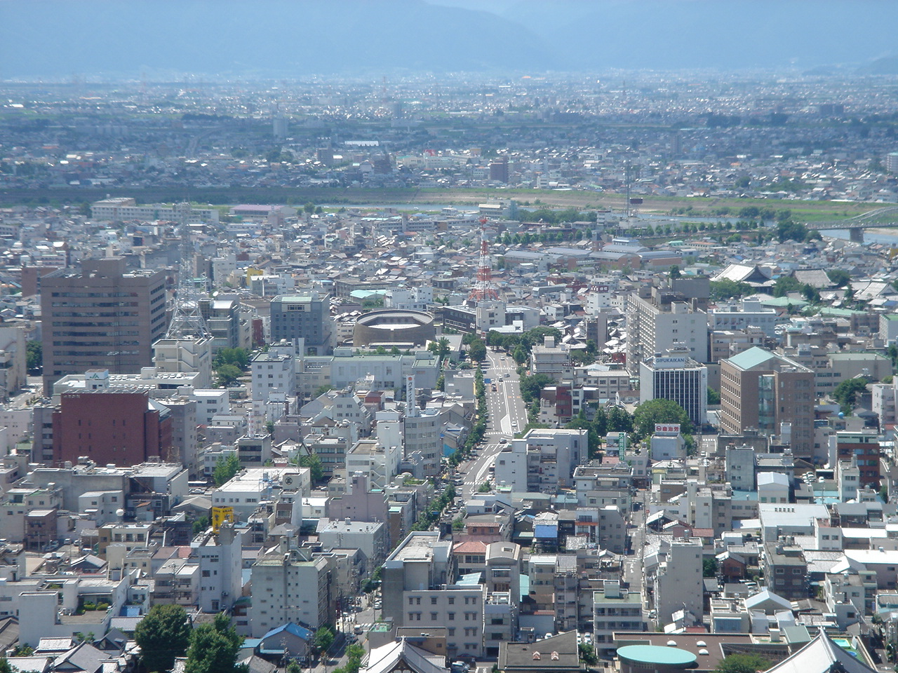 A closeup shot of Gifu's skyline